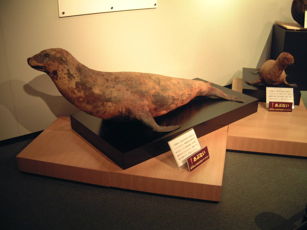 Zalophus japonicus